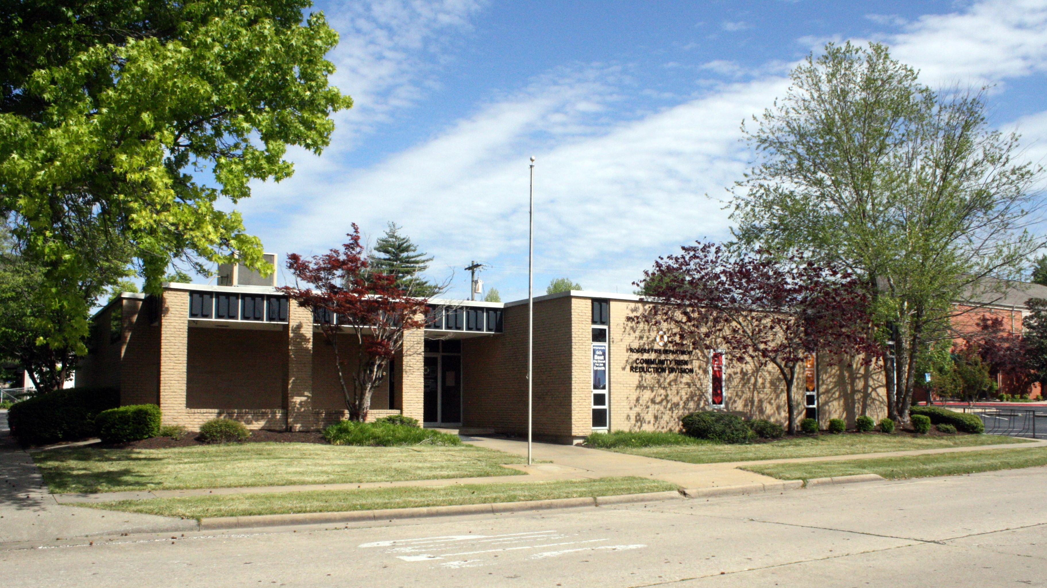 Rogers Fire Department, Community Risk Reduction Office in Rogers, Arkansas